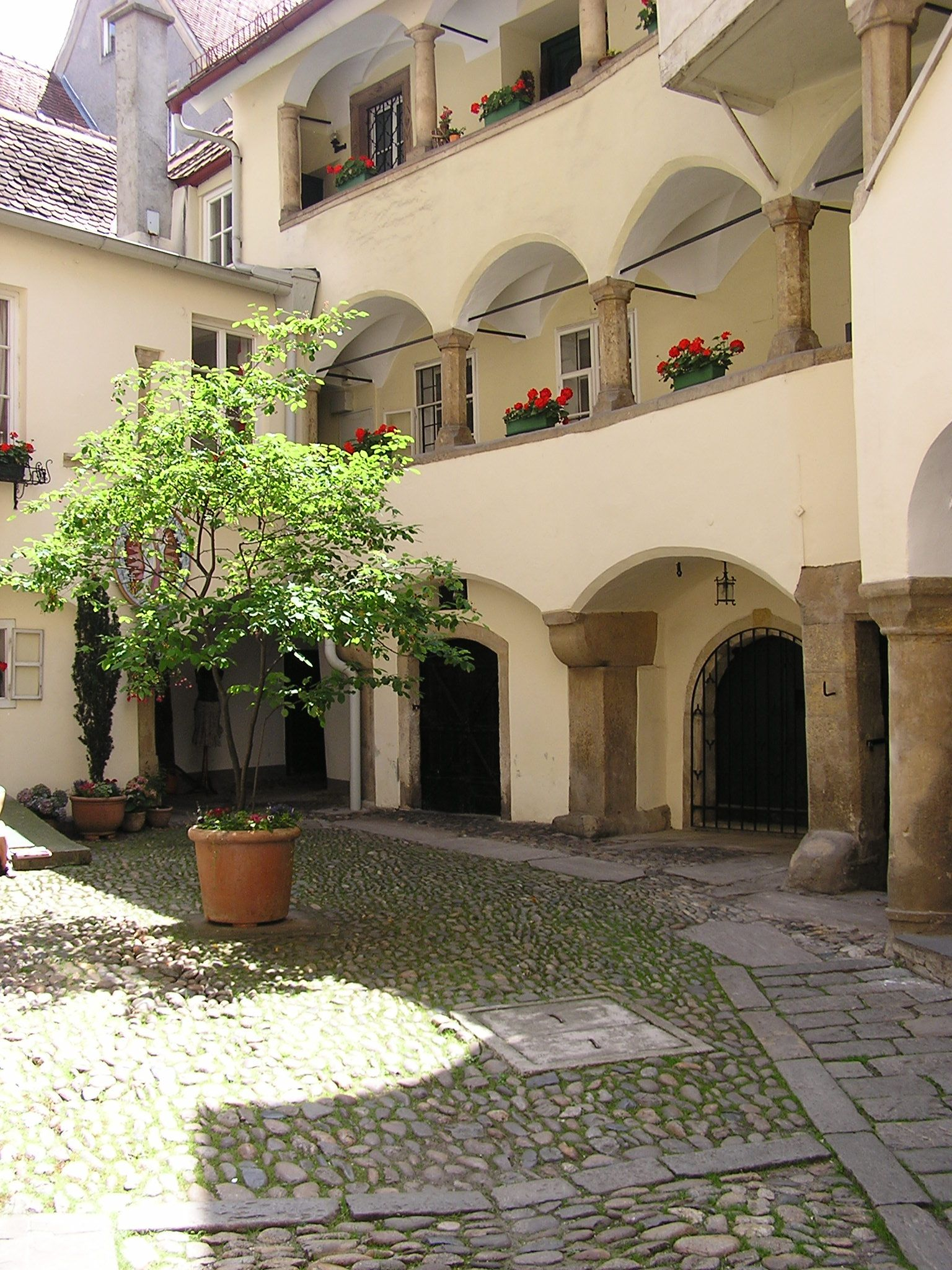 Innenhof Sporgasse 22